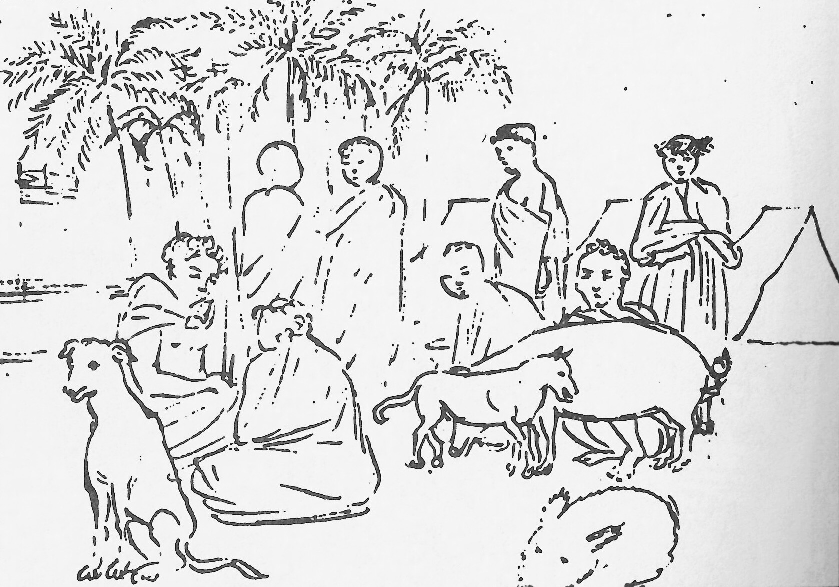 Hawaiian natives wearing kihei, with animals, manuscript sketch by Louis Choris. The dog in the center has been claimed as the only extant image of a Hawaiian Poi Dog by Margaret Titcomb. "The small dog, middle rear, may have had more Hawaiian than foreign blood." This assessment is supported by anthropologist Katharine Luomala who noted: "The large dog at the left looks foreign. The smaller dog by the pig somewhat recalls the odd creature in Figures 7 and 8 [other Polynesian dogs]."